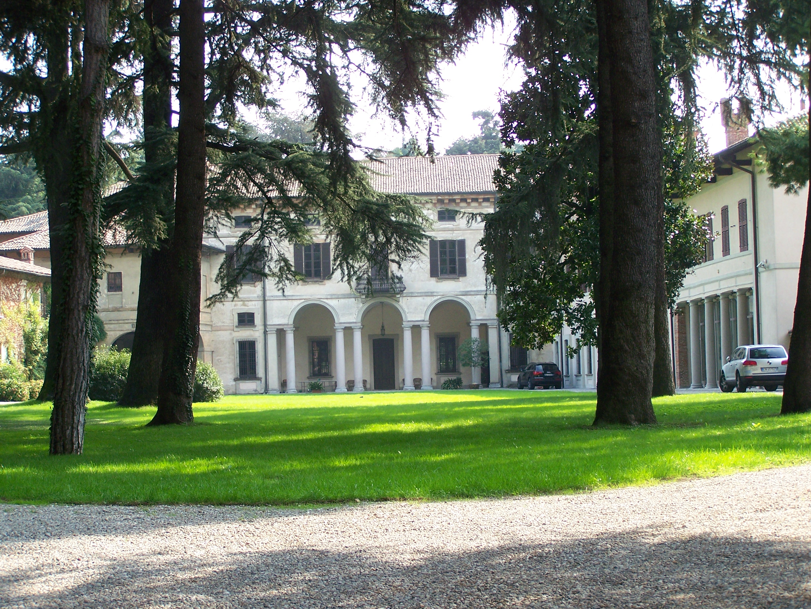 Villa Frisiani Mereghetti Maggi in Corbetta (MI) - Italy